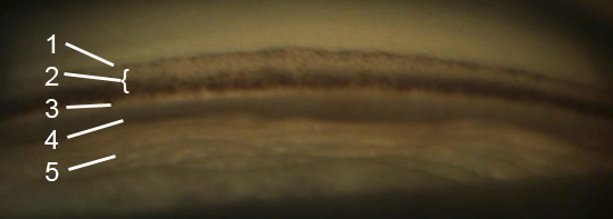 Gonioskopie des Kammerwinkels. Labeled structures: 1. Schwalbe's line, 2. Trabecular meshwork (TM), 3. Scleral spur, 4. Ciliary body, 5. Iris